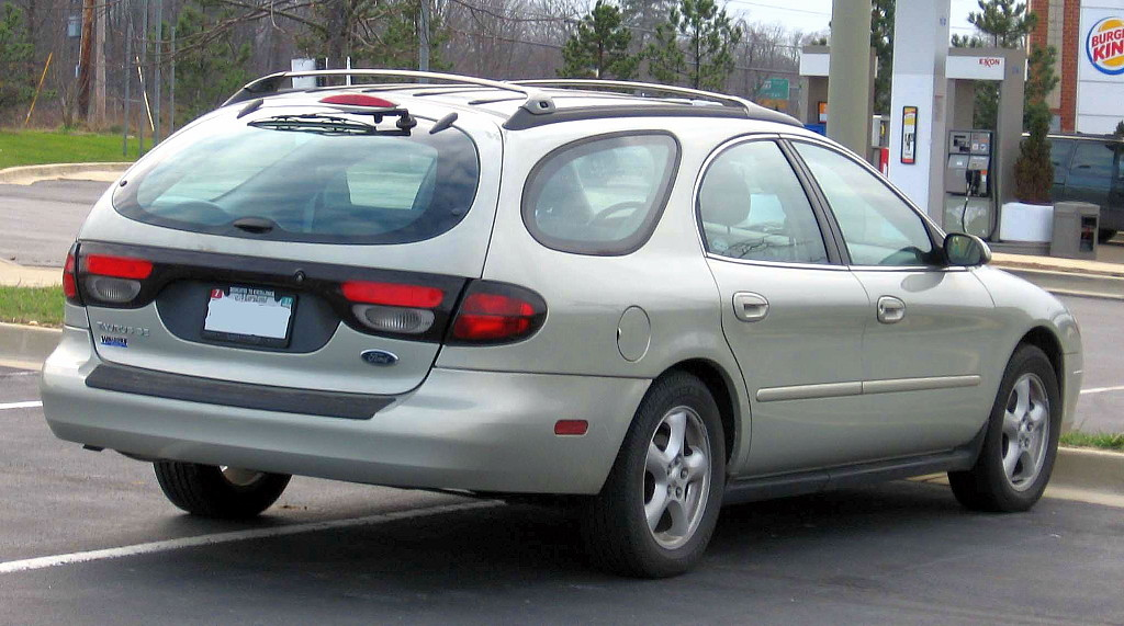 2000-2005 Ford Taurus photographed in USA.